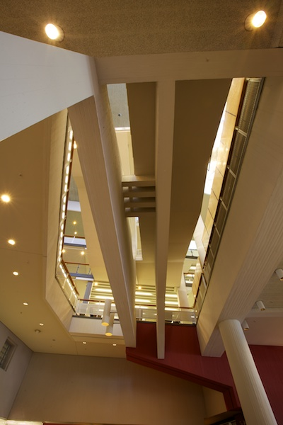 Staatsbibliothek zu Berlin (Haus Potsdamer Strasse), view from the north staircase towards the ceiling of the entrance hall. The open structure of the building also acoustically connects the entrance hall with reading areas.